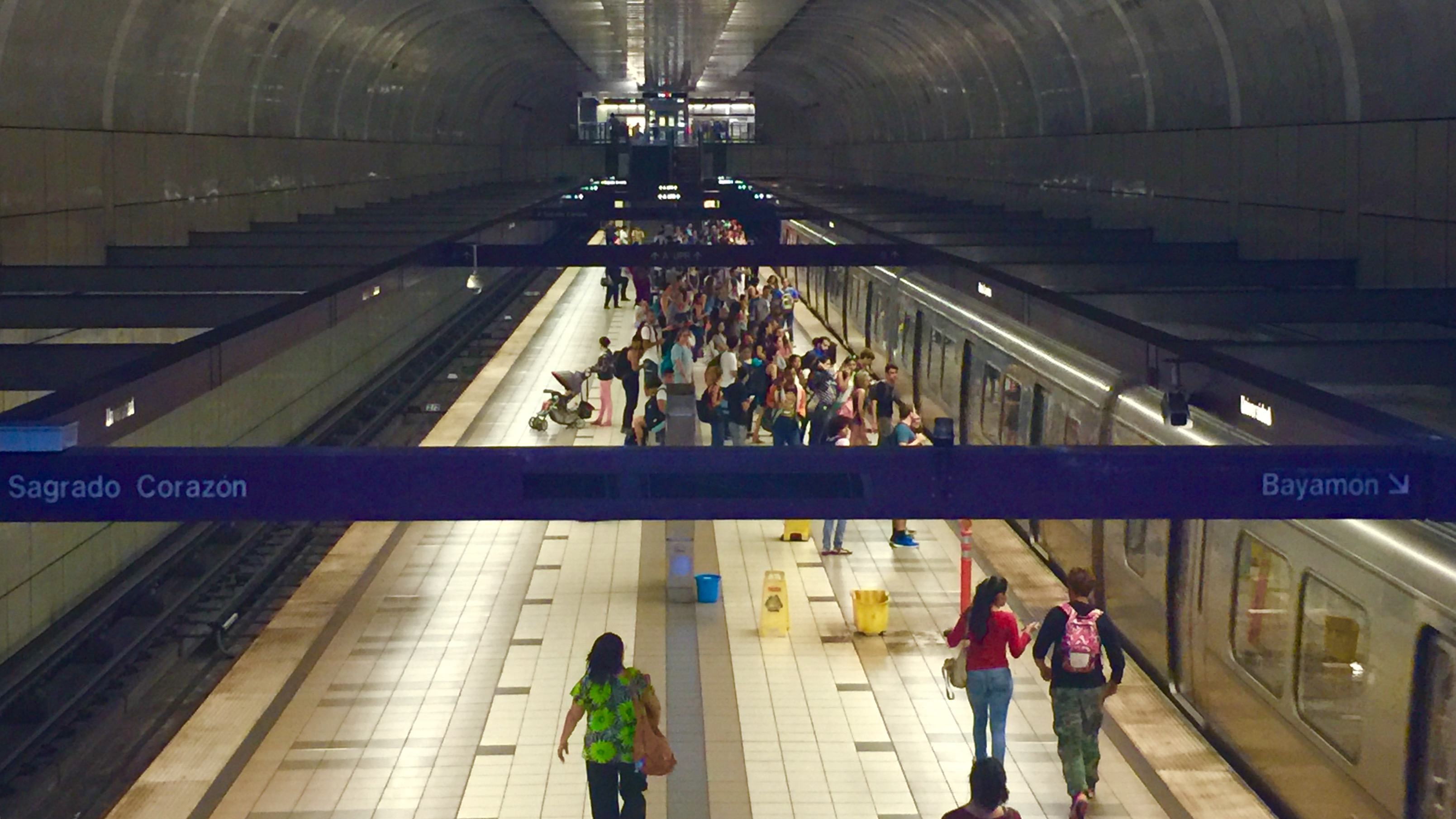 its kind of "cool" riding the Tren Urbano in San Juan